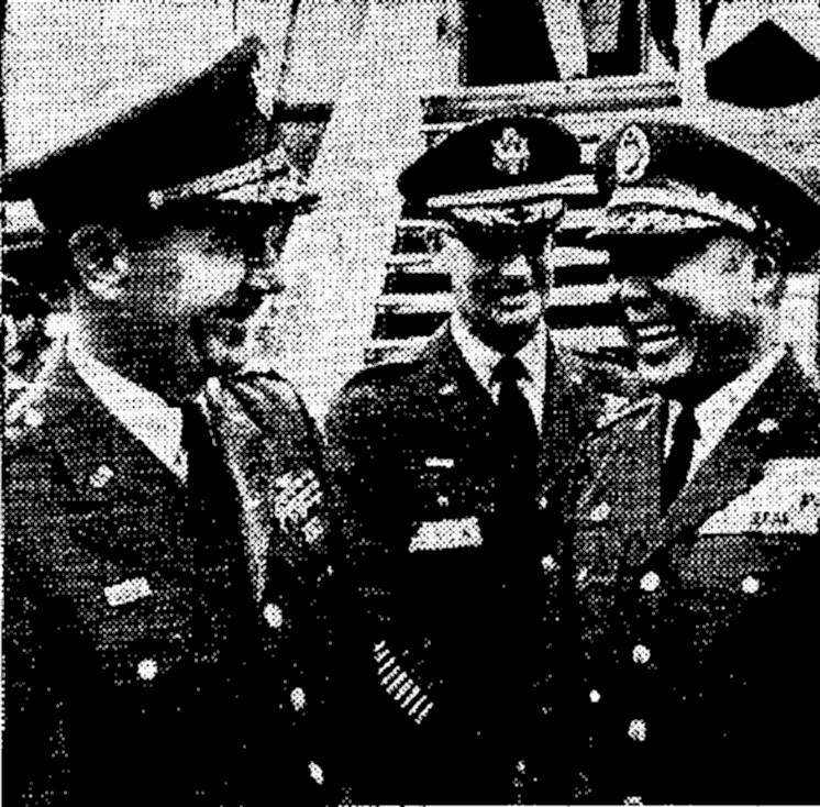 Gen. Collins (left), Commander-in-Chief of the US Army Pacific, arrived at the ROC yesterday, and was welcomed by Liu An-Chi (right), Commander-in-Chief of the ROC Army. Dahlen, Chief of the US Military Assistance Advisory Group, was at the center.